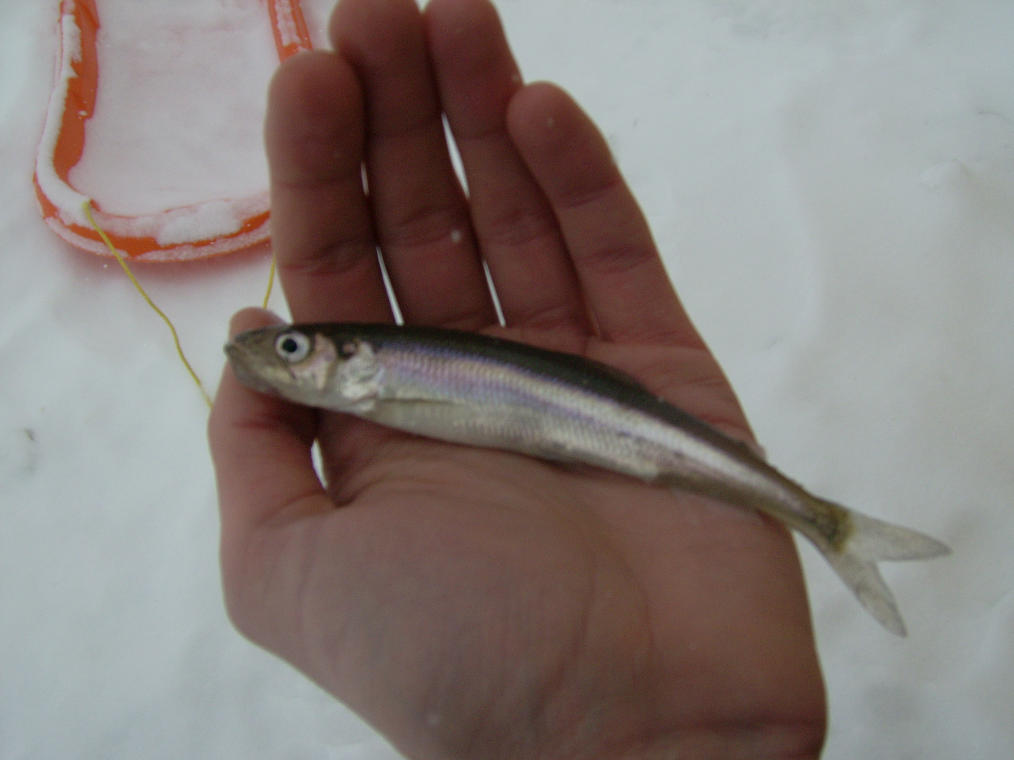 Rainbow smelt (Osmerus mordax), Haviland Bay, Lake Superior. Introduced species.